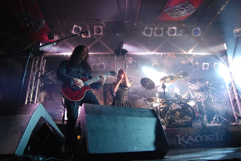 Kamelot in conert on 5 October 2007 in Sala Razzmatazz, Barcelona.